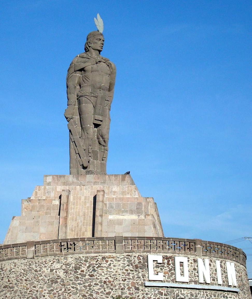 Photo of the statue of Conin